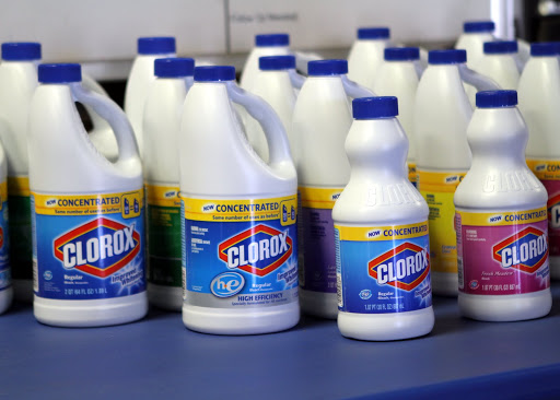 Clorox Bottles